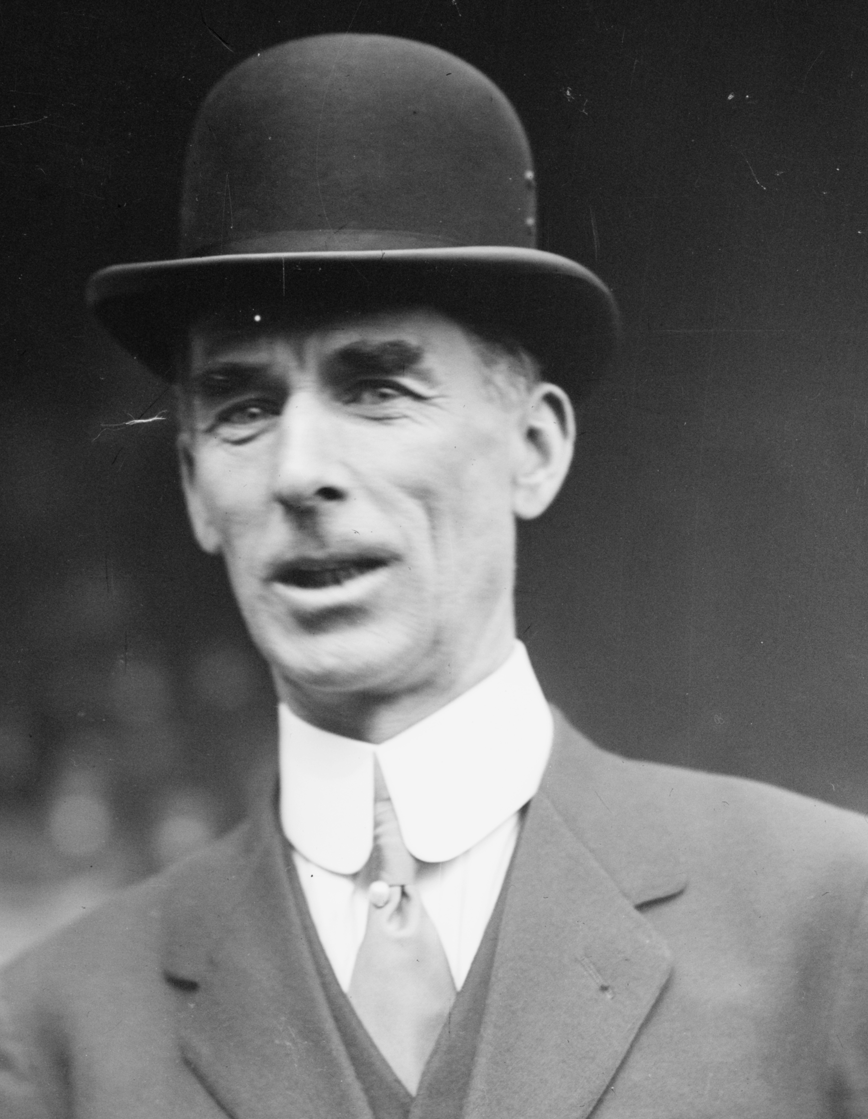 American professional baseball player and manager Connie Mack (1862-1956)